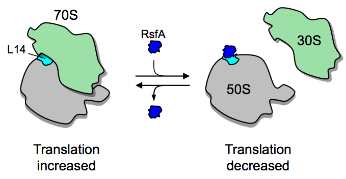 Mechanism of action of RsfS (here still called RsfA). Based on Häuser et al. 2012